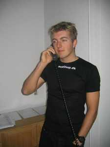 Martin Bay Pedersen